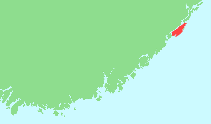 Locator map of Tromøy, Aust-Agder, Norway